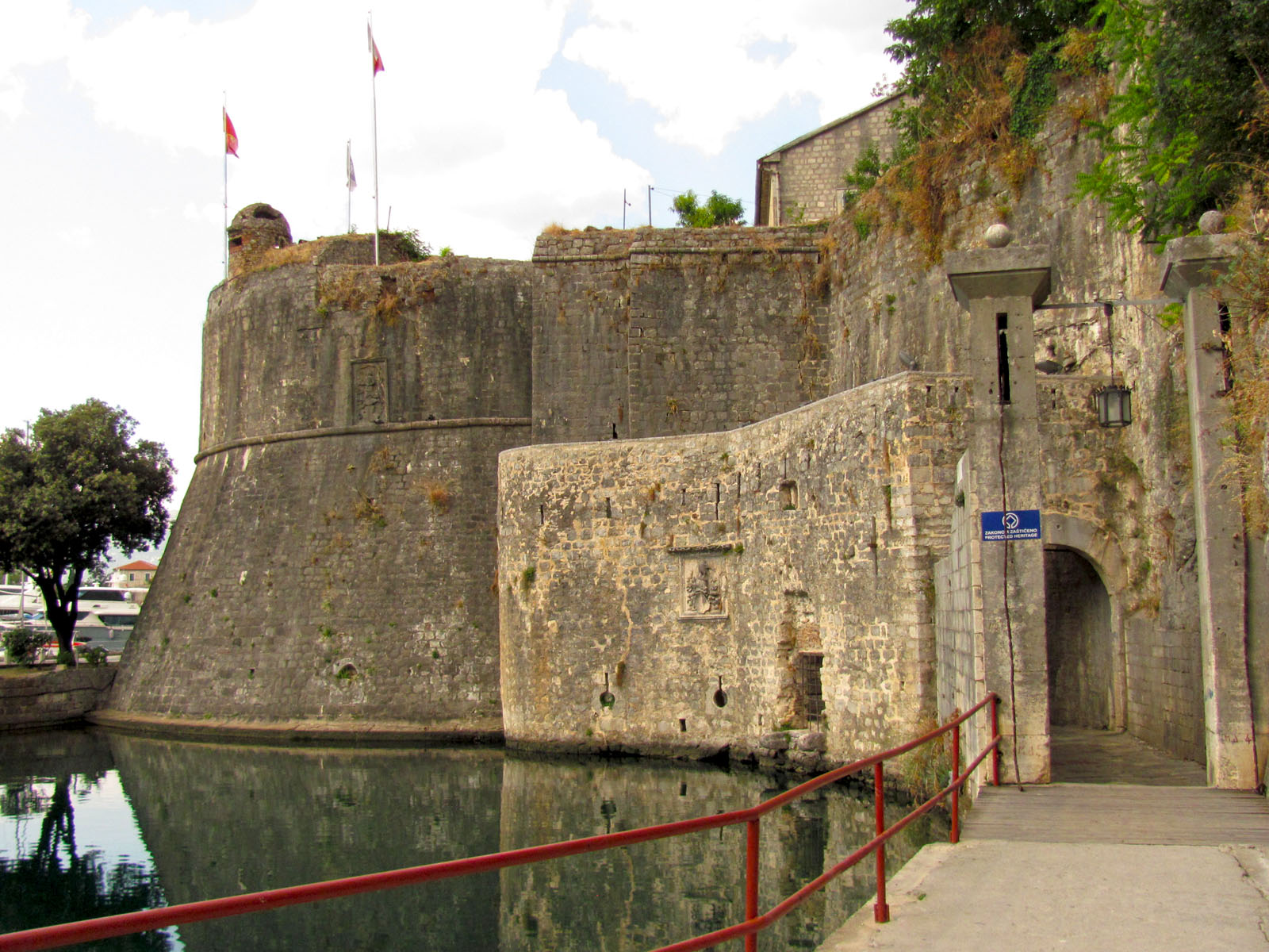 Southern entrance to Old Town in Kotor, Montenegro.